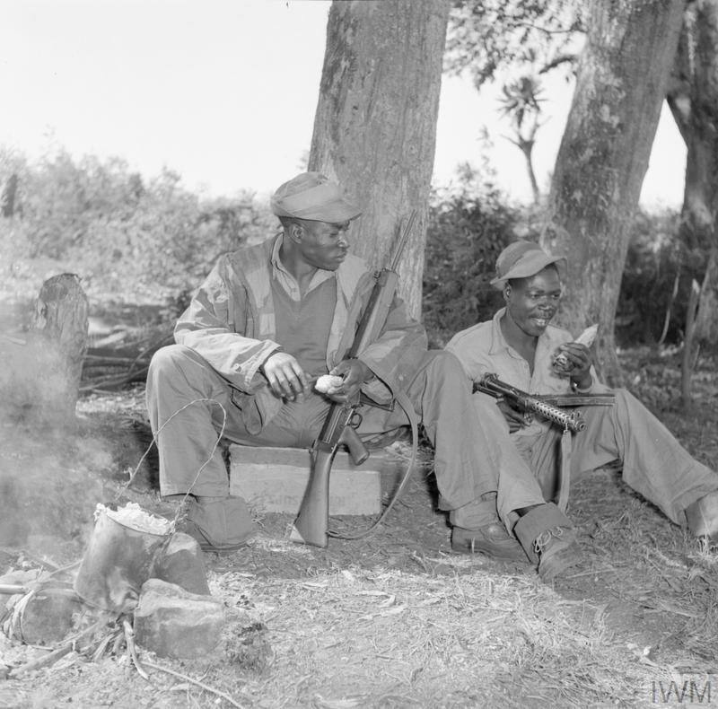 BRITISH ARMY OPERATIONS AGAINST THE MAU MAU IN KENYA 1952 - 1956 Kikuyu tribesmen working as members of a counter-gang tracking down Mau Mau insurgents. The work of counter-gangs including impersonating Mau Mau in order to obtain information.